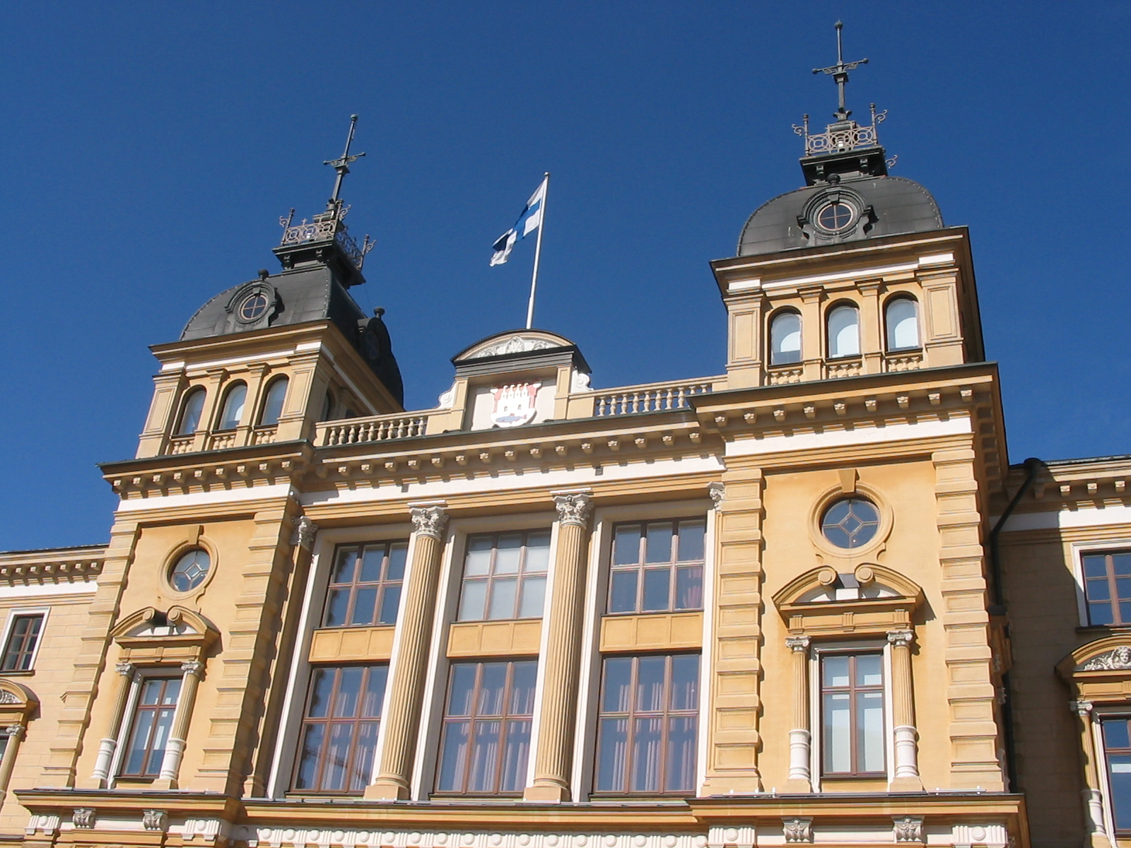 Oulu City Hall on the Mayday 2005